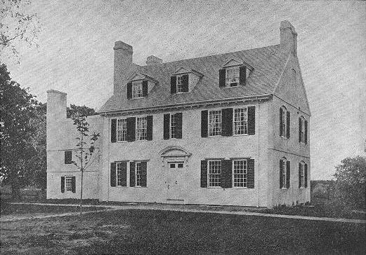 Home of Governor William Dummer, Byfield, MA; from "Dummer Academy," an article in New England Magazine, 1905.